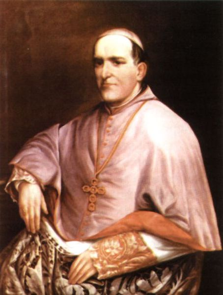 Ignacy Józef Łobos (1859-1900) Bishop of Tarnow 1886-1900